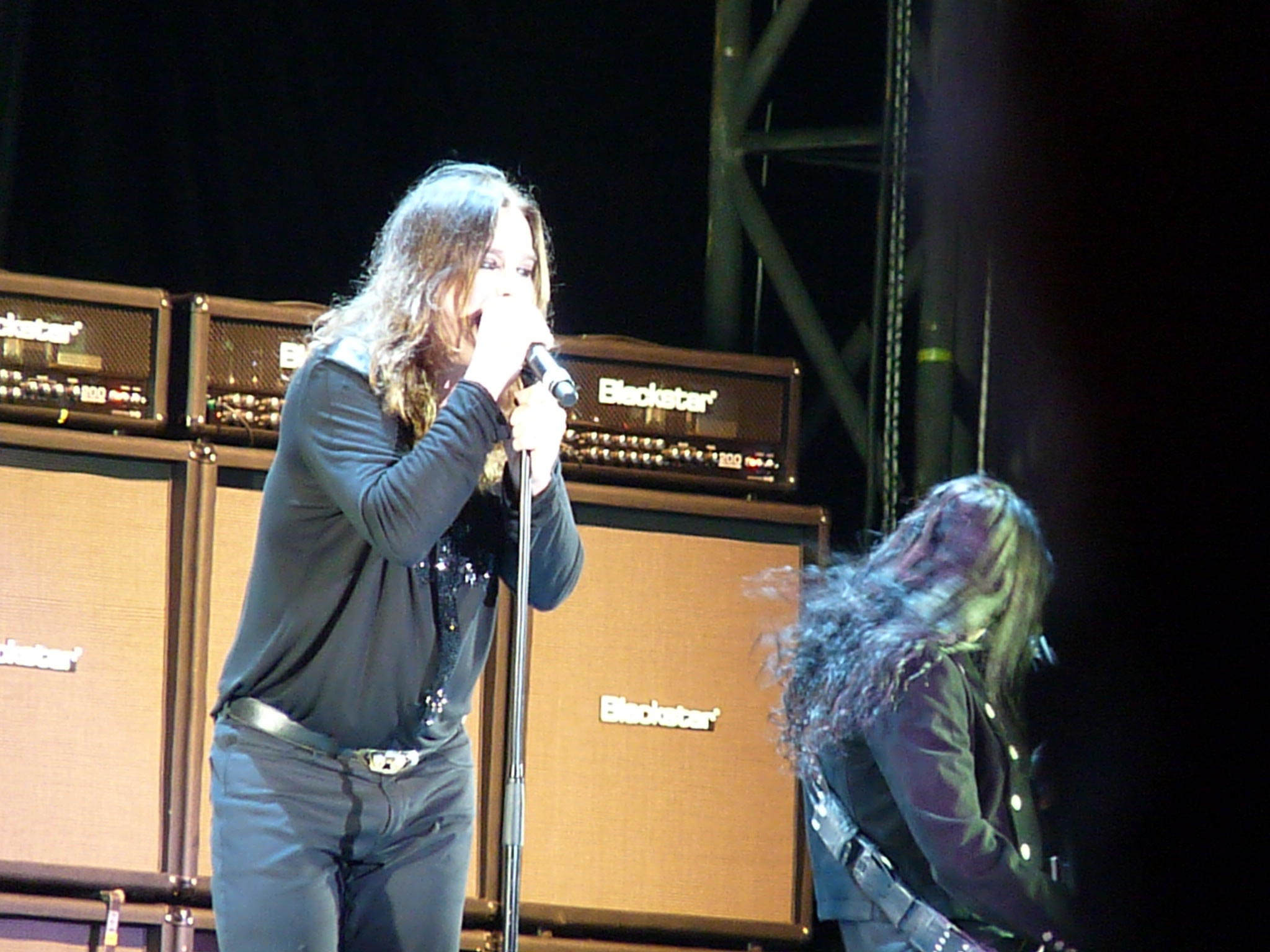 Ozzy Osbourne Emiliàn e rumagnòl: Ozzy Osbourne tòlt śò durànt al Fèstival Rock 'd Azkena dal 2011